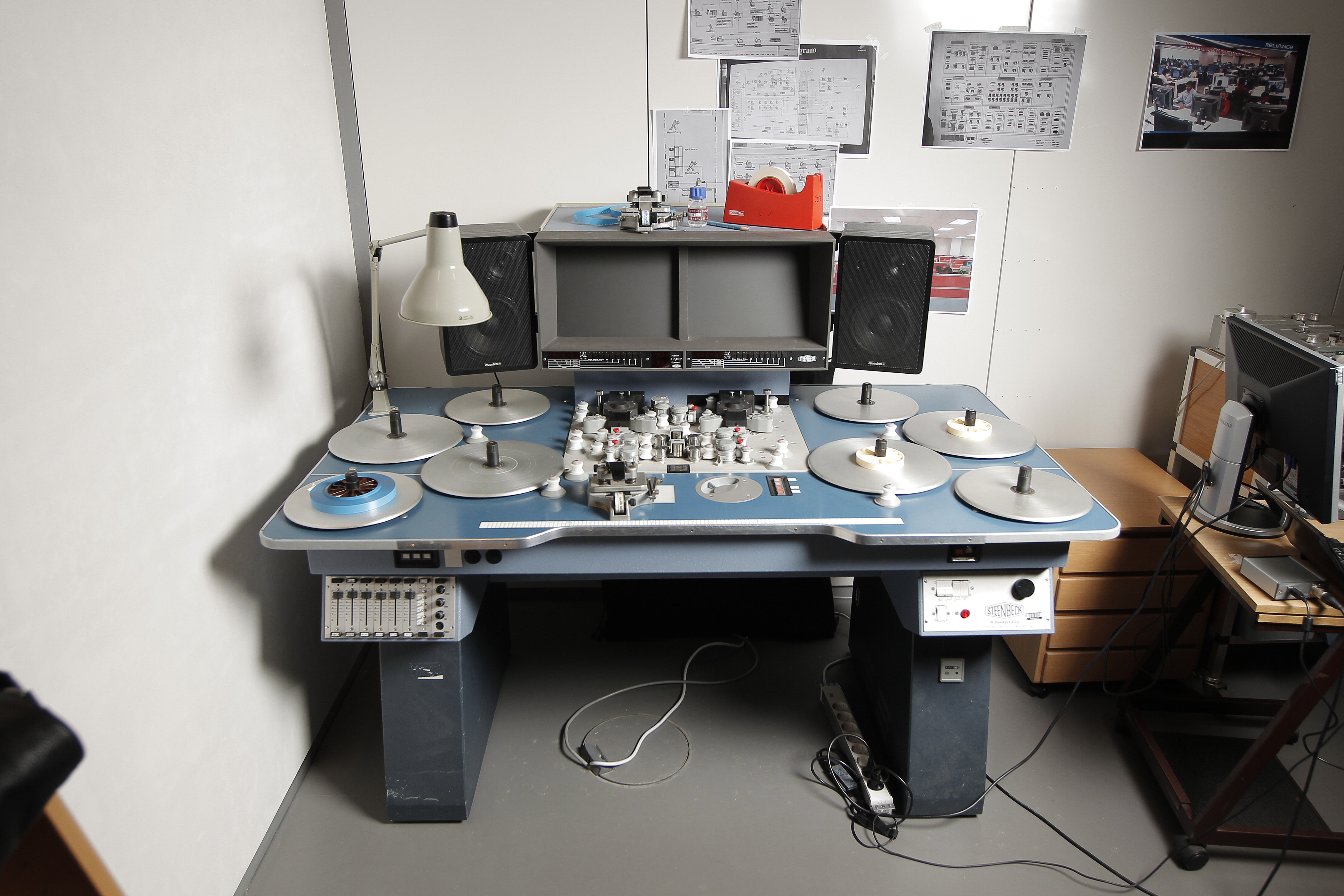 Danmarks Radios arkiv af DRs Kulturarvsprojekt / The archive of the Danish Broadcasting Corporation Photos must be credited "DRs Kulturarvsprojekt"